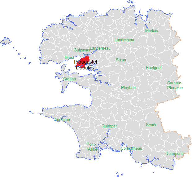 placement Plougastel-Daoulas in departement Finistère